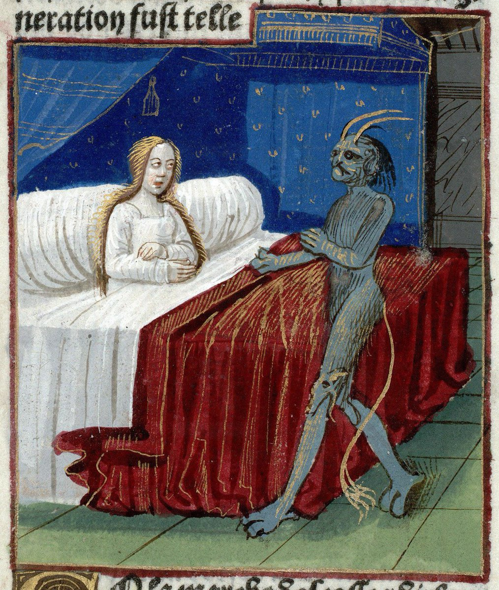 Reference Paris, Bibliothèque Mazarine, Inc. 1286 Page f. 008v Subject Merlin's Design Key words miniature , literary scene , sex , woman , devil , room , sky bed , bed cover Notes: 'How was Merlin was conceived by a devil. And how he was in love with the Lady of the Lake.' Manuscript title: Lancelot in prose (part of) Origin: Northern France (Paris)